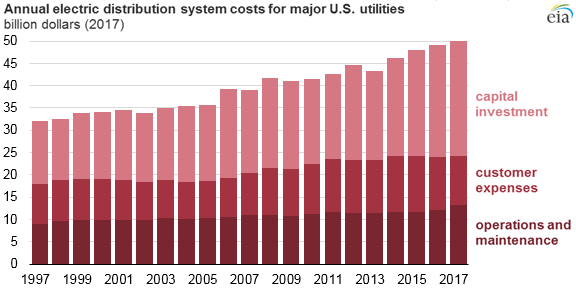 Spending on electricity distribution systems by major U.S. electric utilities—representing about 70% of total U.S. electric load—has risen 54% over the past two decades, from $31 billion to $51 billion annually. July 20, 2018